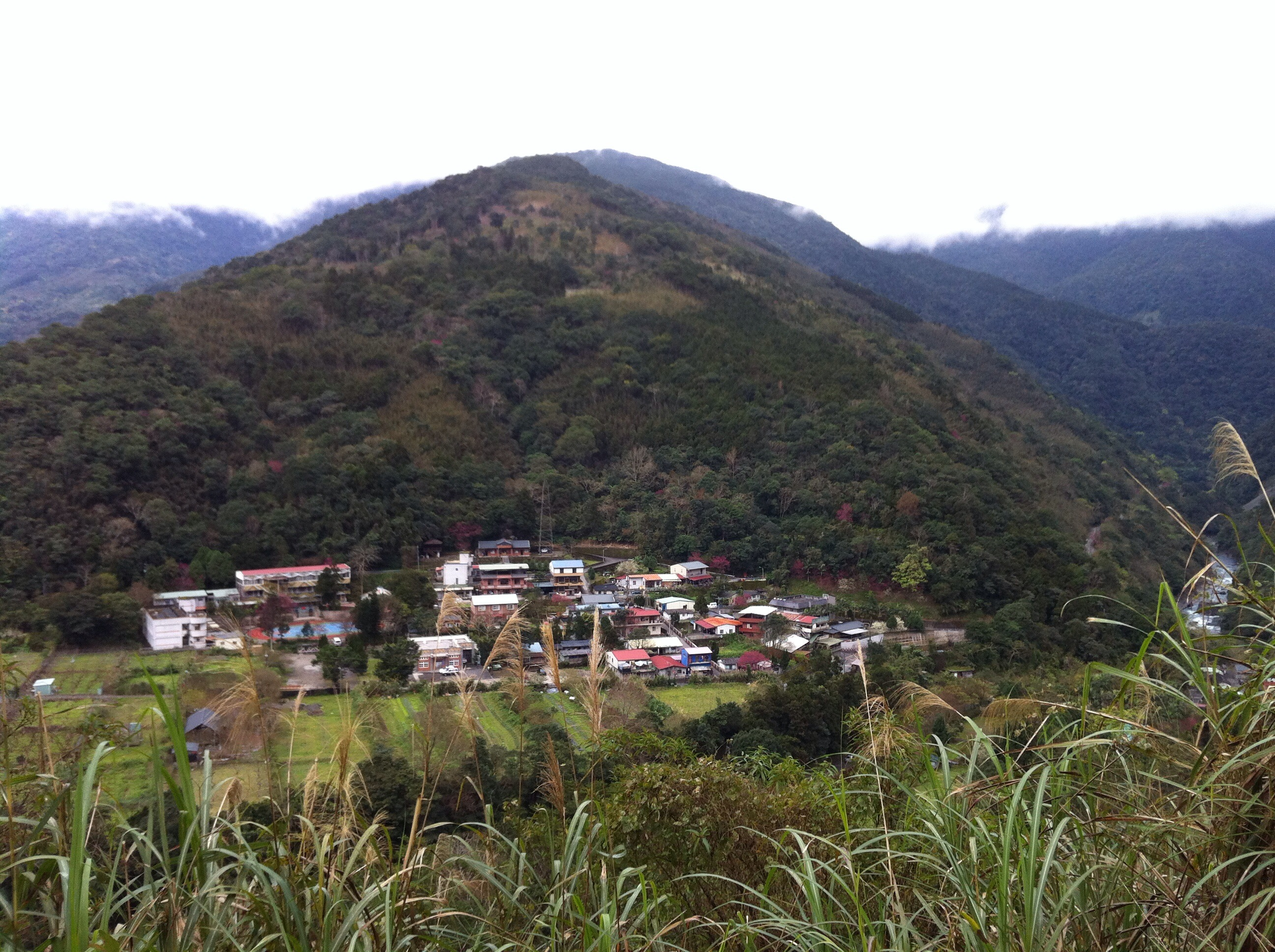 Looking down towards Fushan.